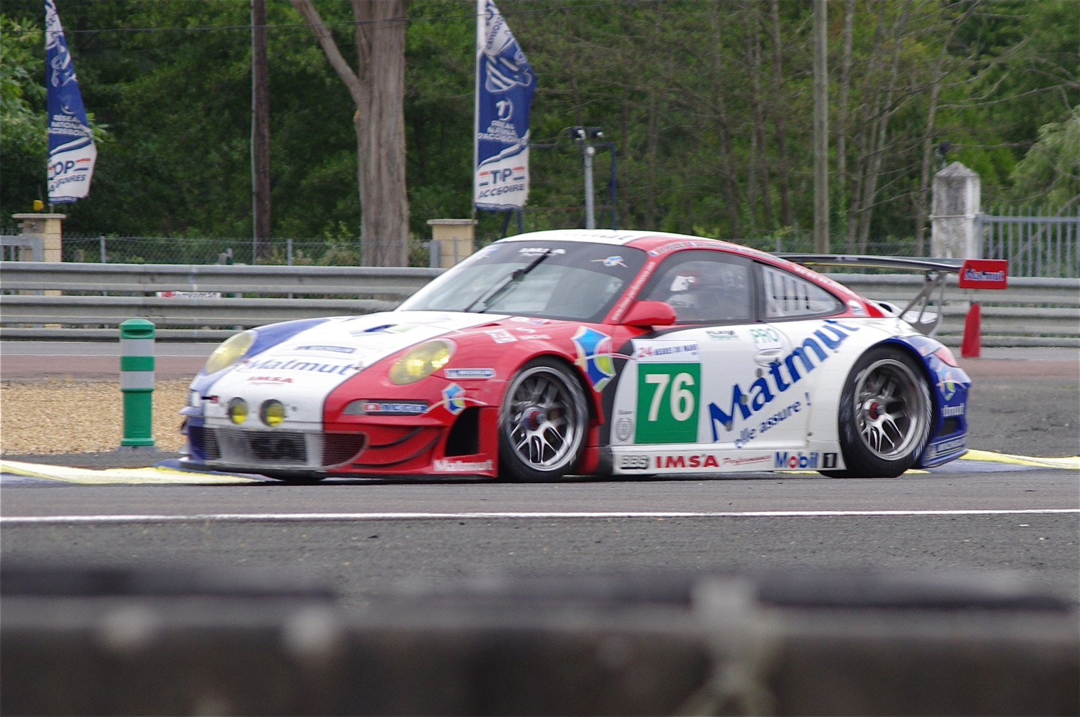 The Michelin Chicane, Le Mans 2011